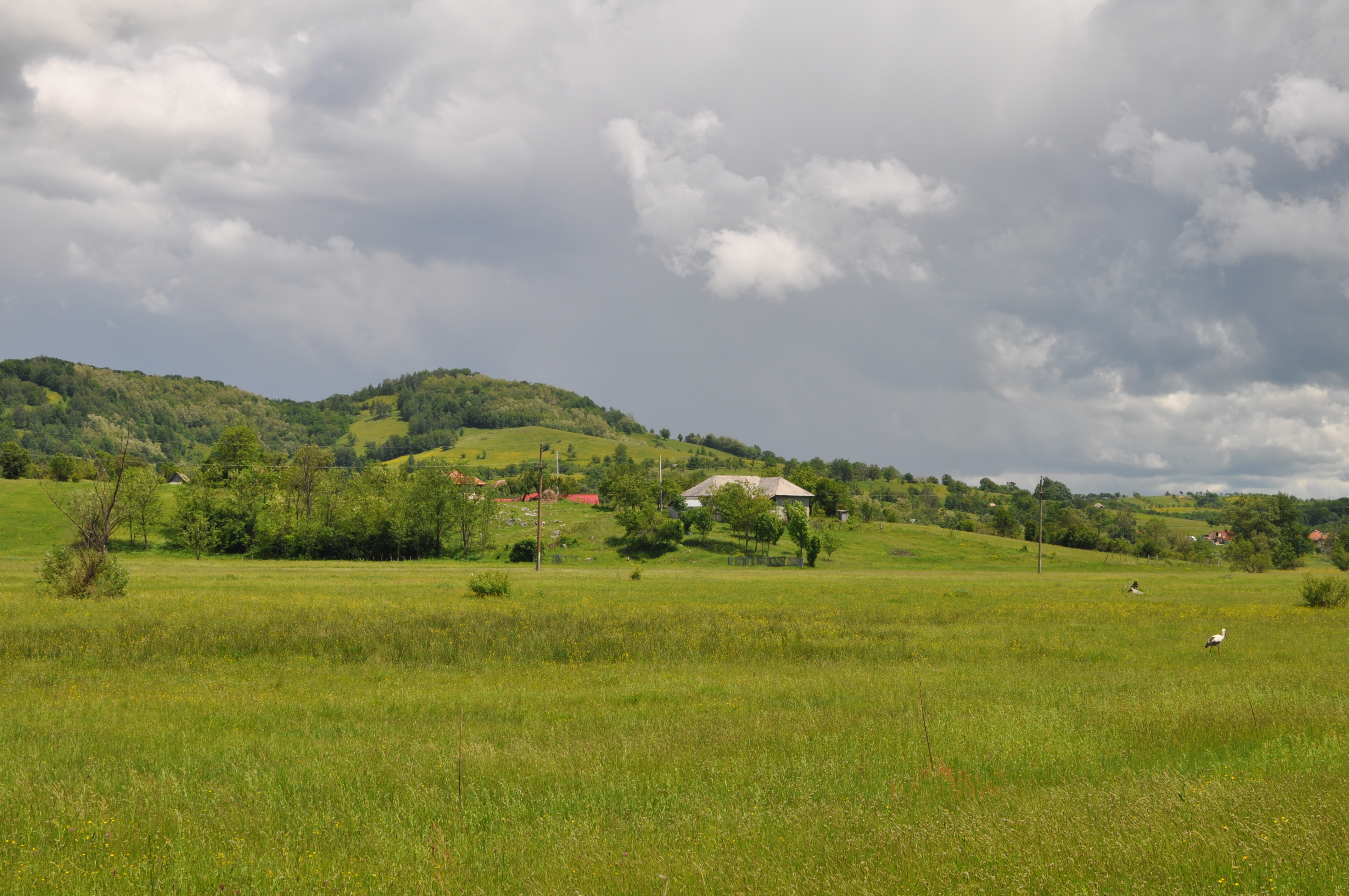 Turtaba, Mehedinți County, Romania